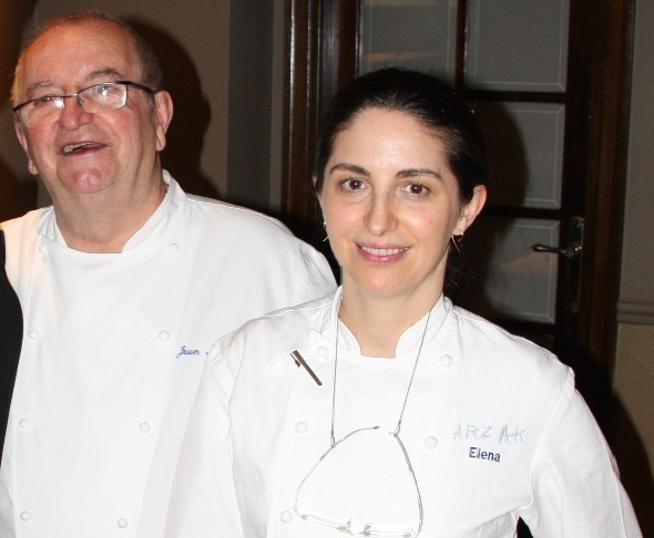 Juan Mari Arzak (centre) and Elena Arzak (right), chefs at Arzak, a three Michelin star restaurant in the Basque country.